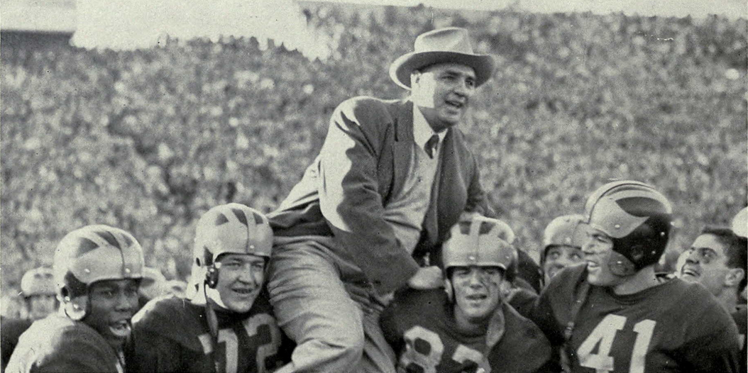 Michigan coach Bennie Oosterbaan being lifted by players Art Walker, Jim Balog, Thad Stanford, Ted Kress, and Tony Branoff after a 30-0 victory over Ohio State in 1953